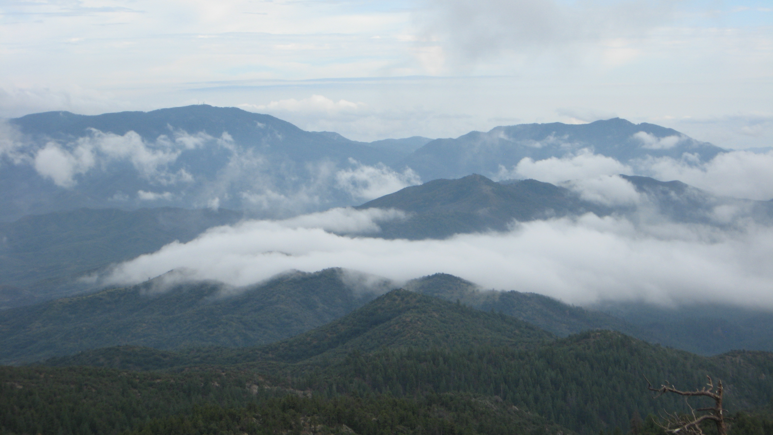 Looking South from the summit of Mount Union the highest peak in the Bradshaw Mountains.